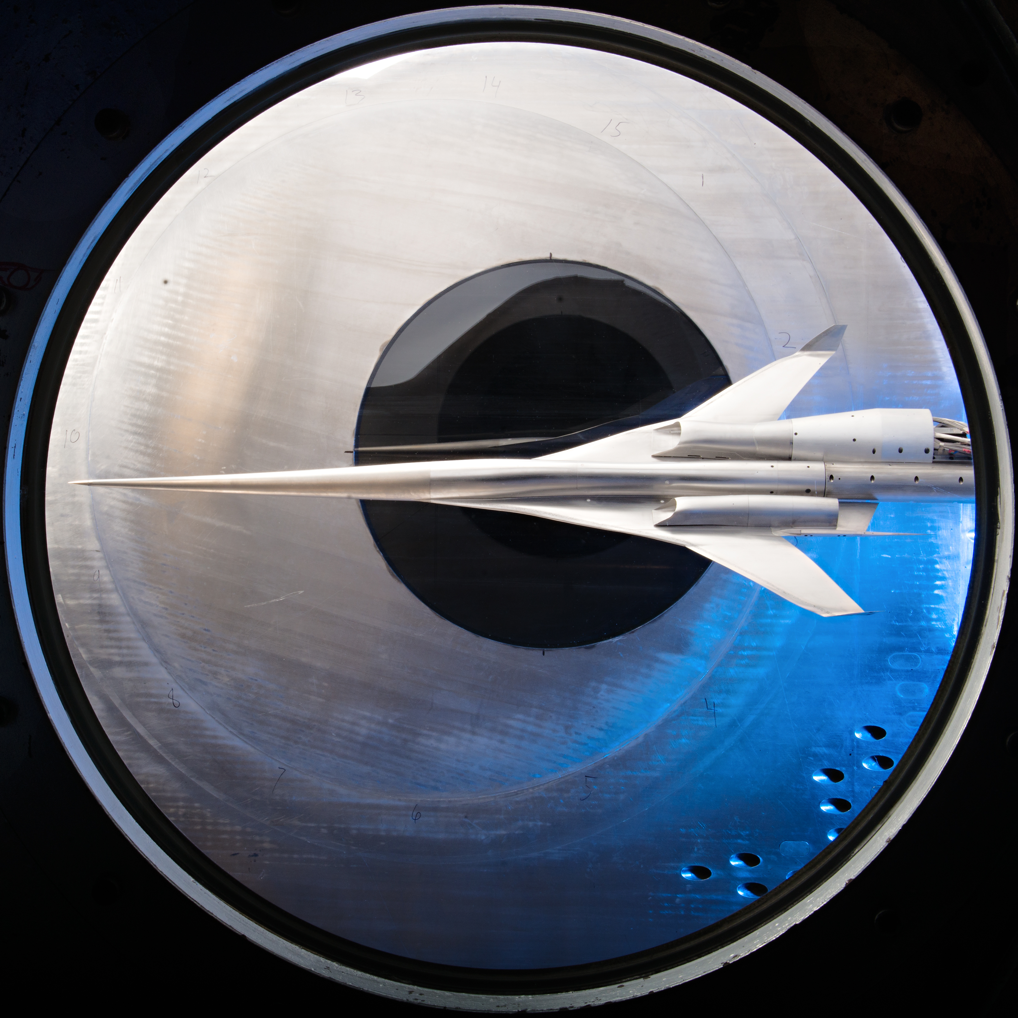 The window in the sidewall of the 8- by 6-foot supersonic wind tunnel at NASA's Glenn Research Center shows a 1.79 percent scale model of a future concept supersonic aircraft built by The Boeing Company. In recent tests, researchers evaluated the performance of air inlets mounted on top of the model to see how changing the amount of airflow at supersonic speeds through the inlet affected performance. The inlet on the pilot's right side (top inlet in this side view) is larger because it contains a remote-controlled device through which the flow of air could be changed. The work is part of ongoing research in NASA's Aeronautics Research Mission Directorate to address the challenges of making future supersonic flight over land possible. Researchers are testing overall vehicle design and performance options to reduce emissions and noise, and identifying whether the volume of sonic booms can be reduced to a level that leads to a reversal of the current ruling that prohibits commercial supersonic flight over land.